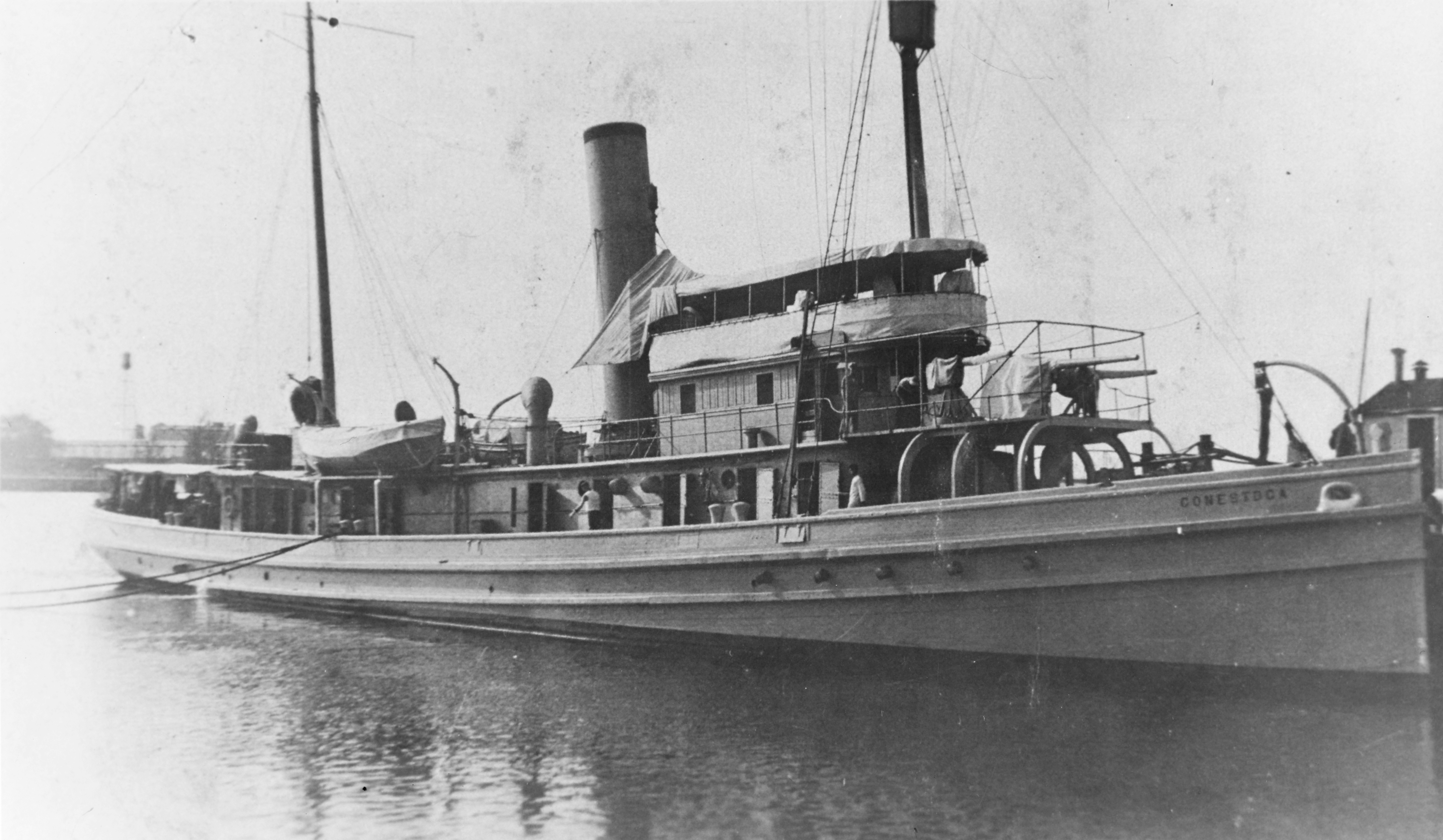 The U.S. Navy fleet ocean tug USS Conestoga (AT-54) at San Diego, California (USA), circa early 1921, shortly before she disappeared while en route from San Diego to Samoa, by way of Pearl Harbor, Hawaii.